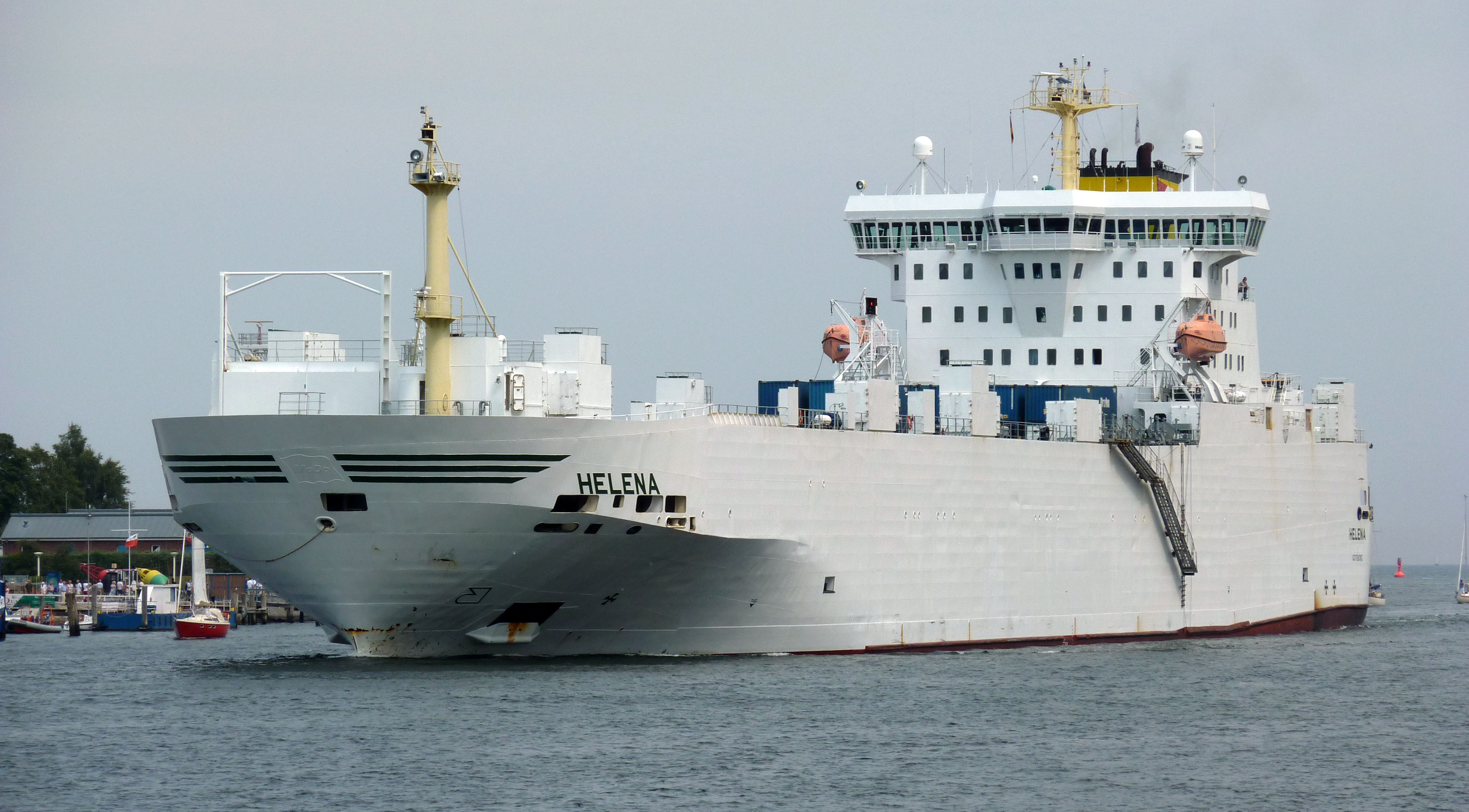 M/S Helena in Travemünde